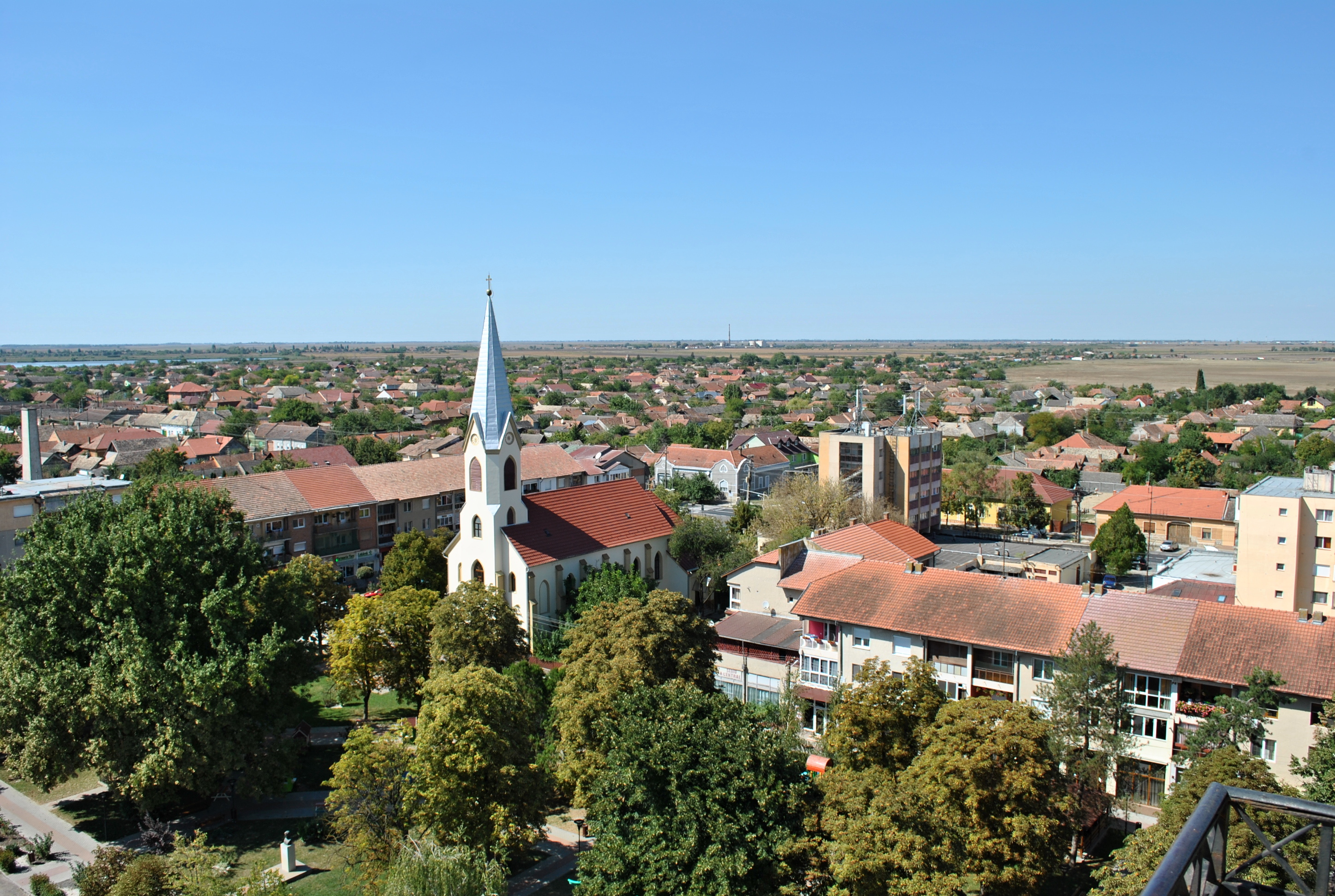 Nădlac, Romania - view of the town from the Protestant church tower